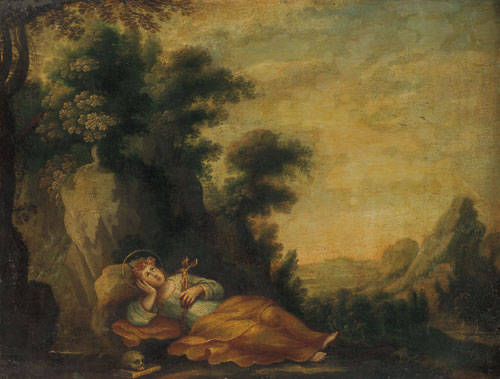 Saint Dorothea meditating in a landscape